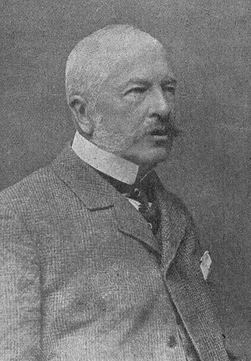 poseł